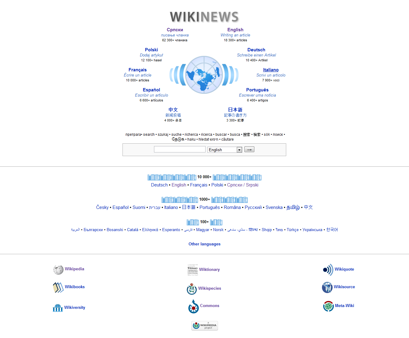 Screenshot of the multilingual Wikinews portal (